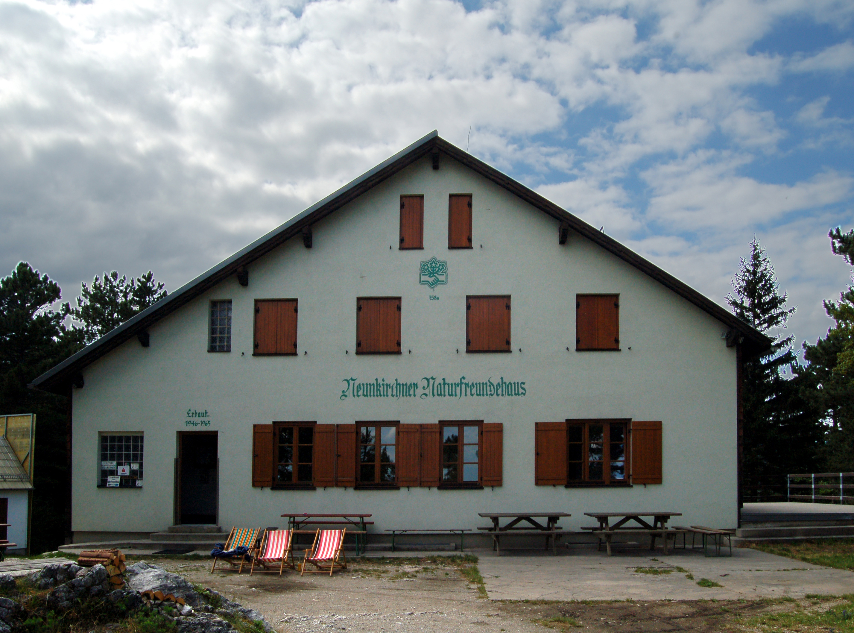 Neunkirchner Naturfreundehaus, 758m, an alpine hut.